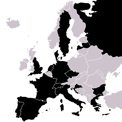 Countries in black are the ones who qualified for the final tournament of the UEFA Euro 2004, in Portugal. Created by parutakupiu. Based on blank Europe map by Wikipedia.